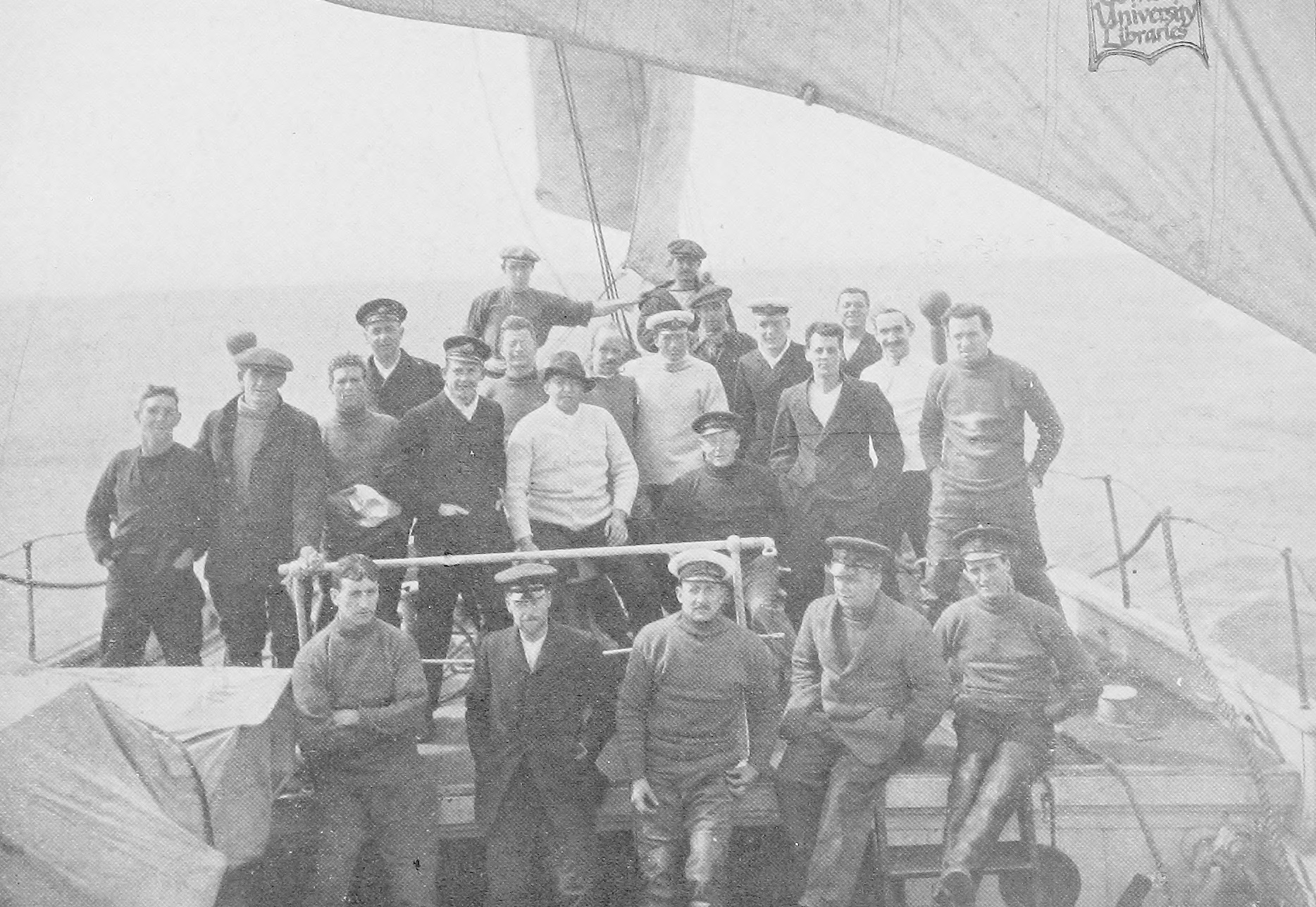 Photograph of the Weddell Sea Party on board the Endurance